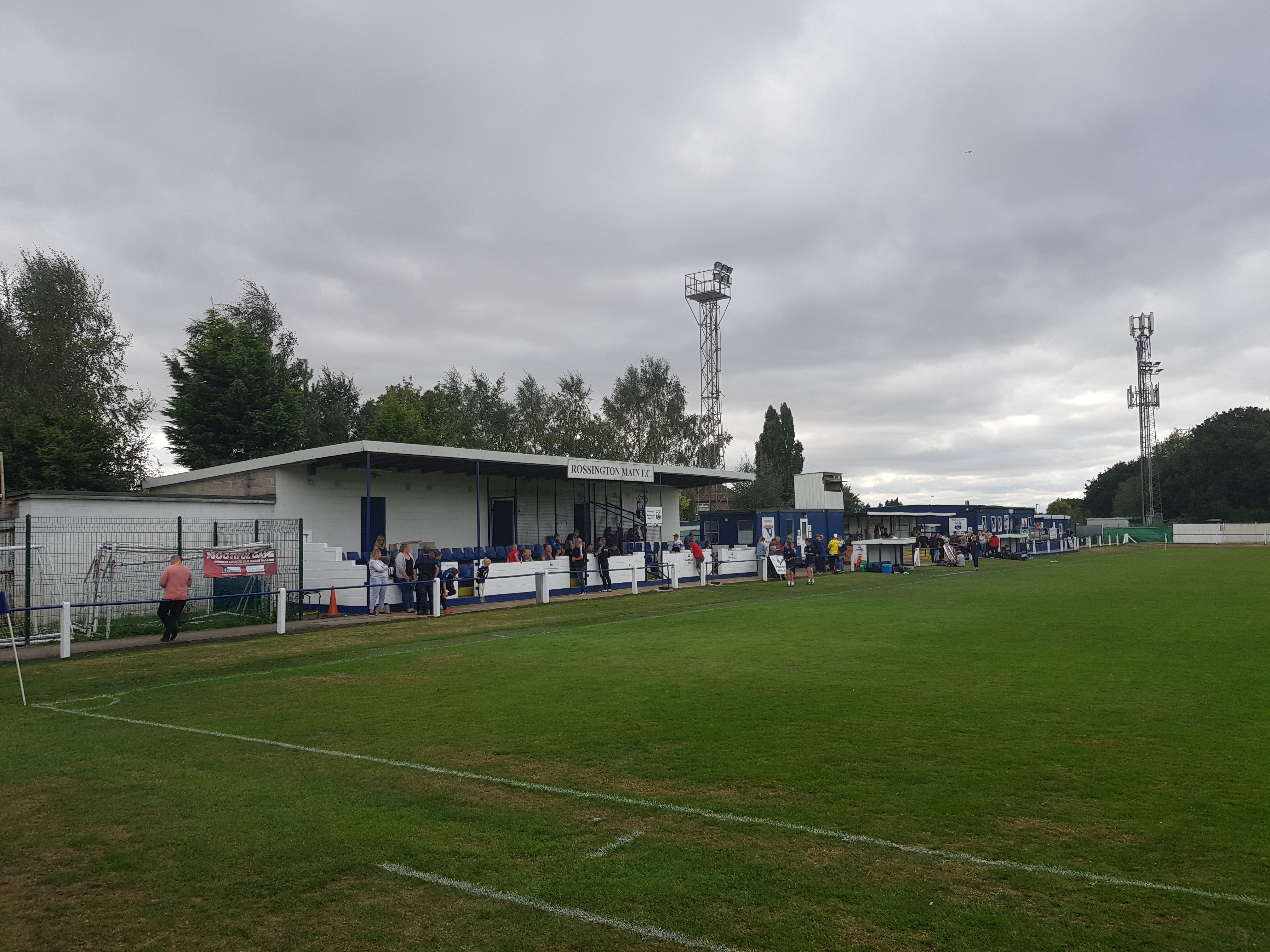 Oxford Street, home ground of Rossington Main FC and Doncaster Rovers Belles LFC in August 2018, taken at half-time in the Belles' 9-0 defeat by Blackburn Rovers